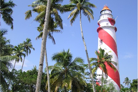 Kollam (Quiolon or Quilan) lighthouse, or Tangasseri (Thankasseri) Point Lighthouse, located about 4 km from Kollam, Kerala, India.